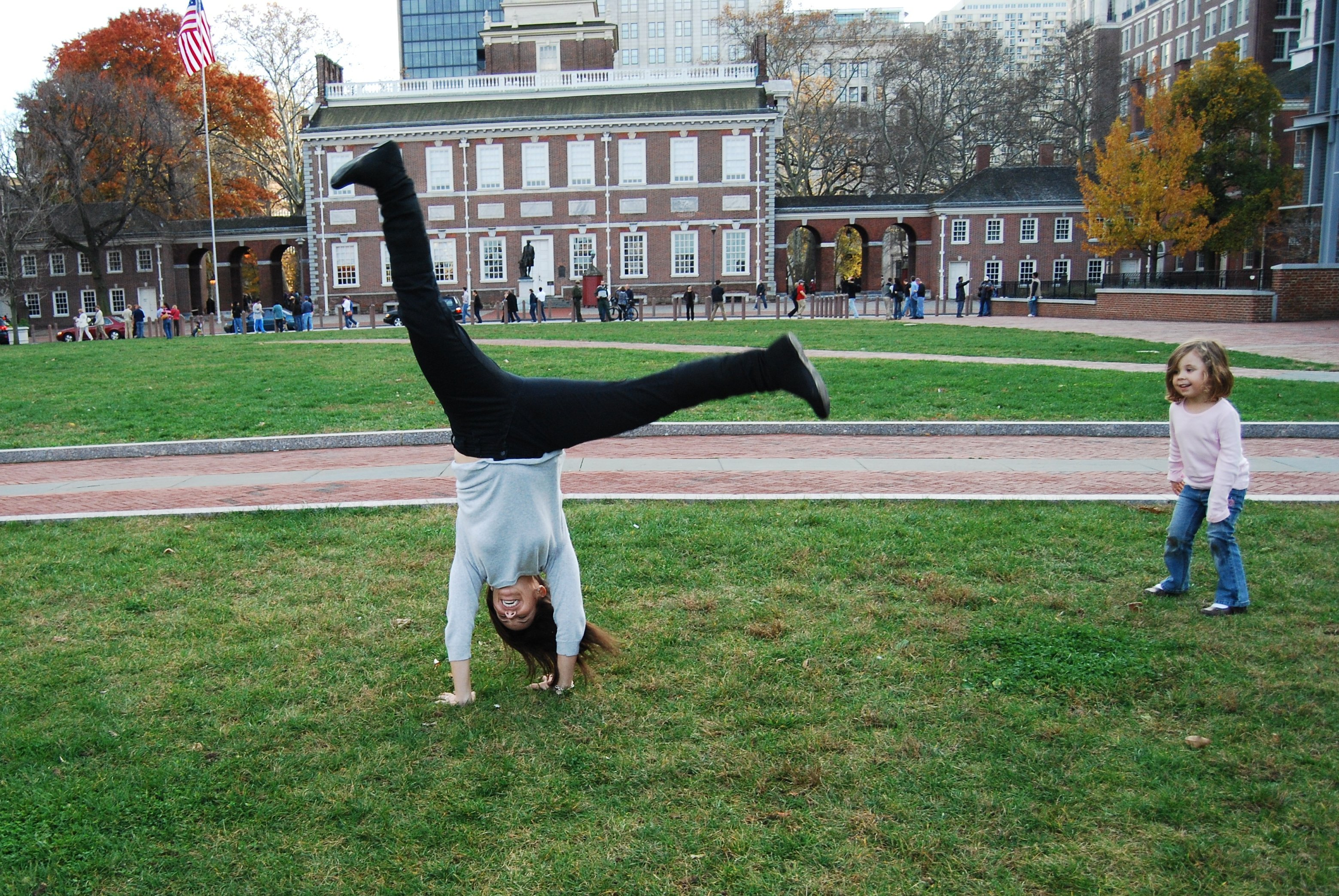 A girl performing a cartwheel in front of Independence Hall in Philadelphia, PA.